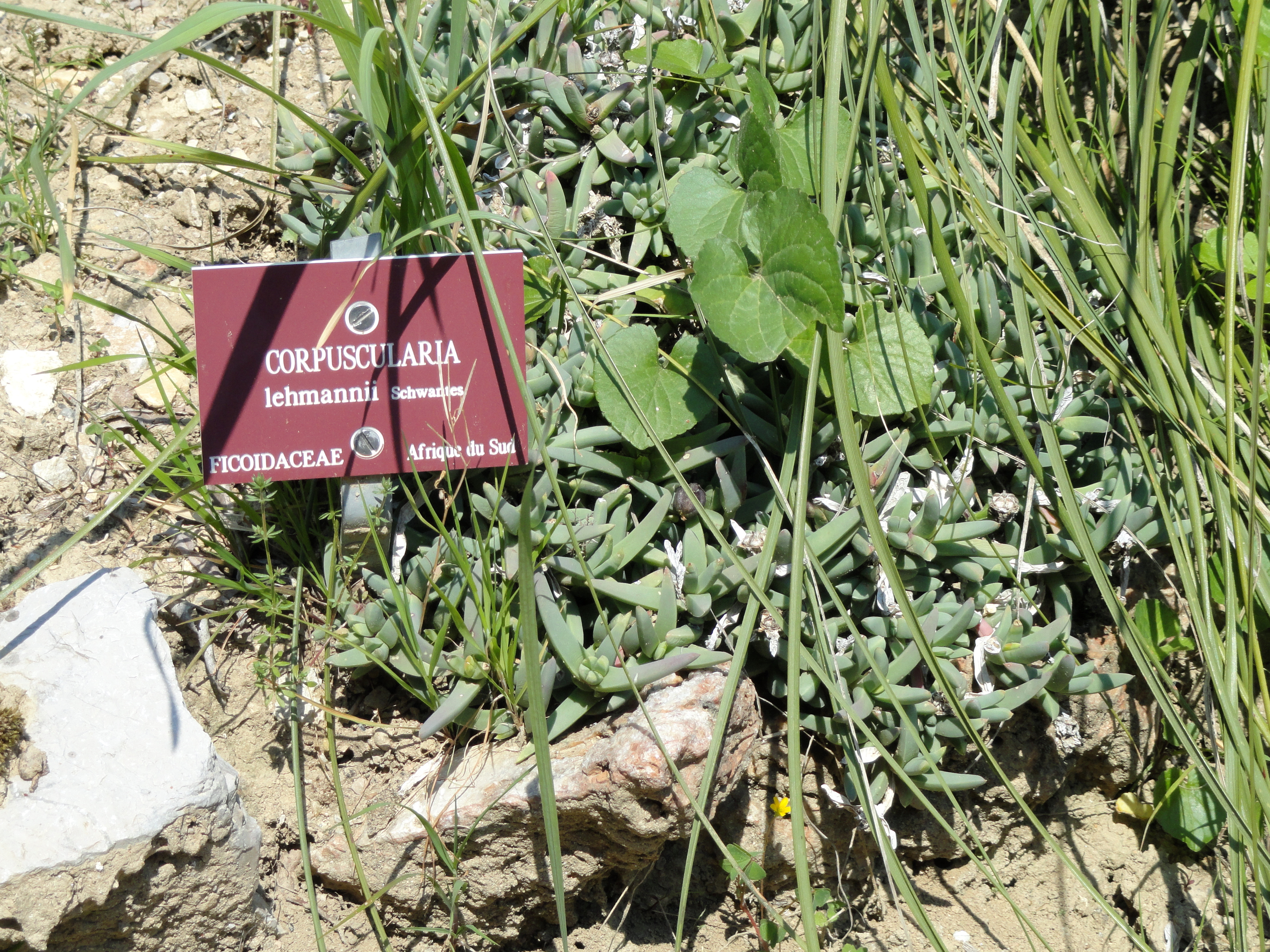 Corpuscularia lehmannii specimen in the Jardin botanique du Val Rahmeh, Menton, Alpes-Maritimes, France.